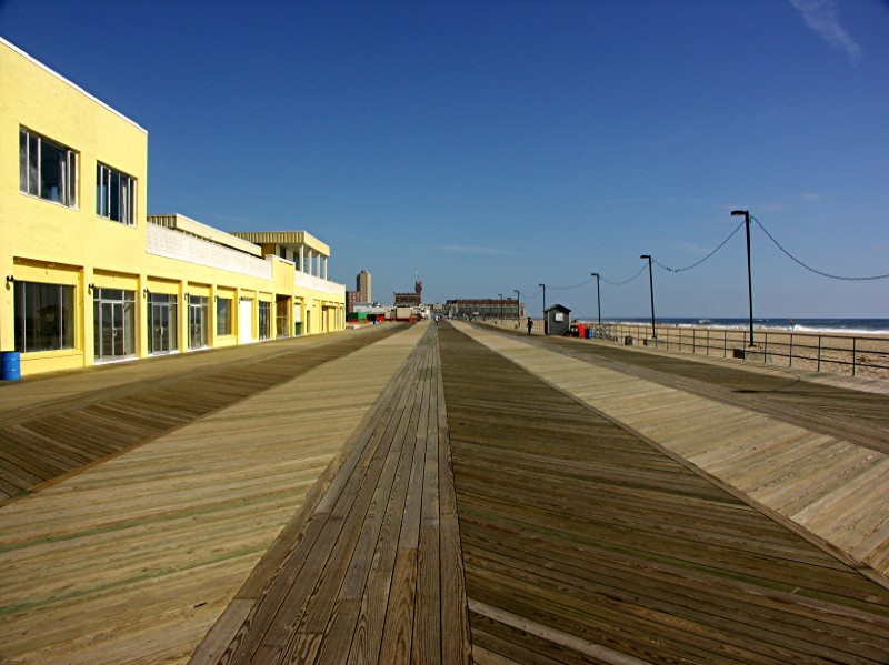 Boardwalk in Asbury Park Photographer --- Bob Jagendorf Website --- [1] Email